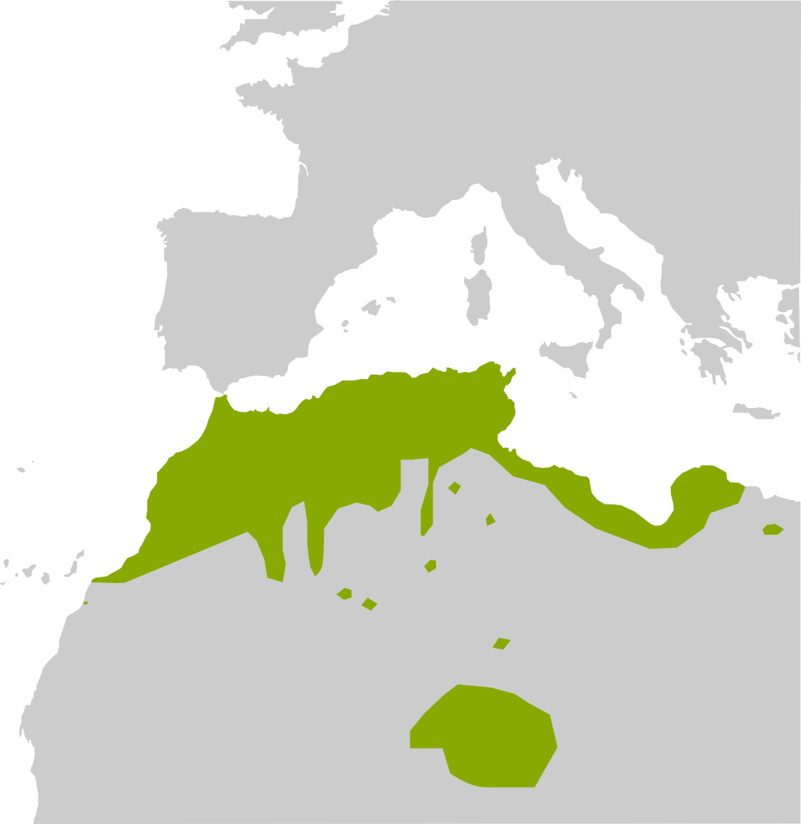 Pelophylax saharicus distribution map.